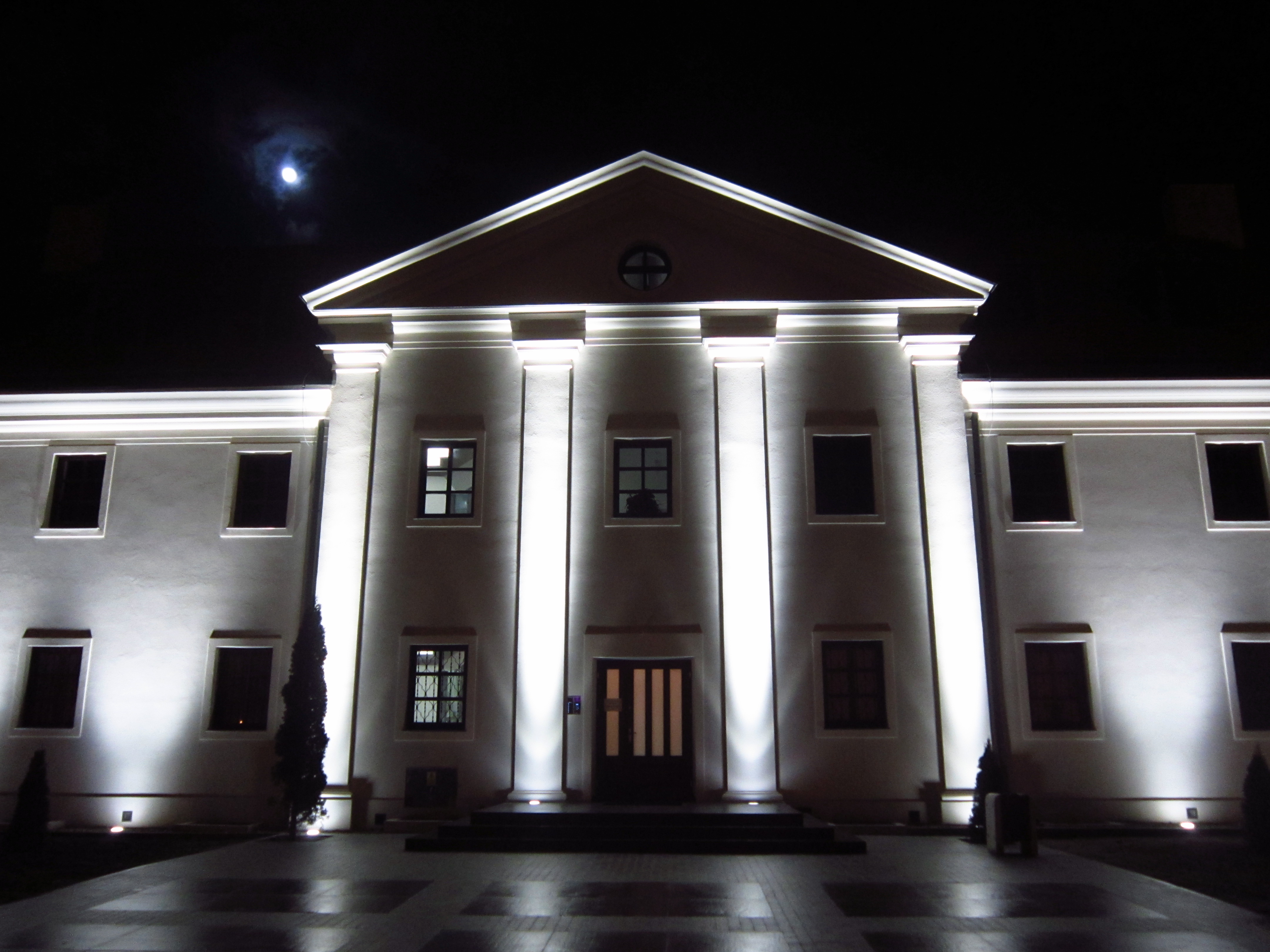 Diocese archive in Włocławek after the reconstruction.